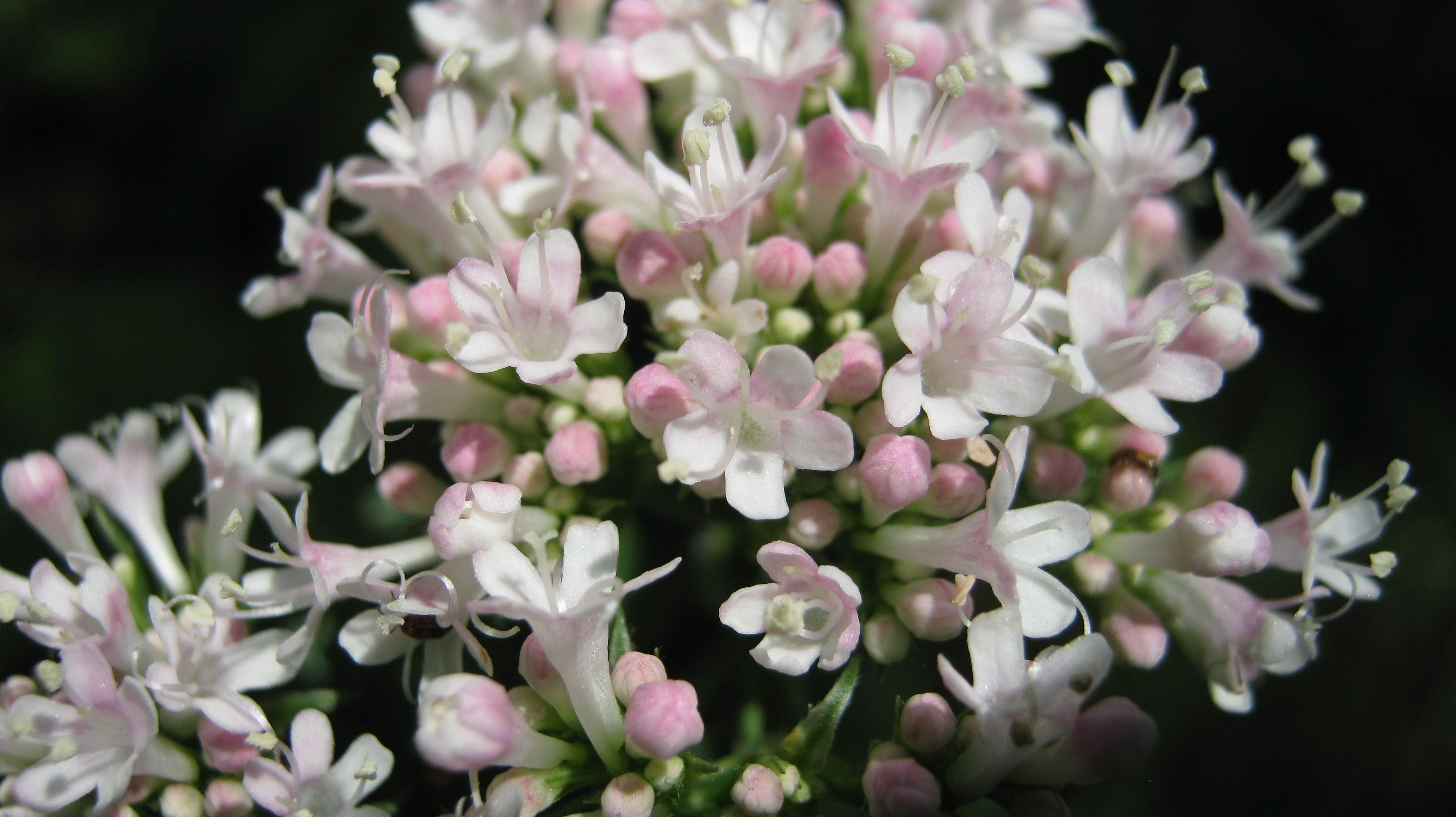 Closeup of flower of Valeriana sambucifolia, photograhed in Bergen, NorwayNorsk nynorsk: Nærbilete av blomen til vendelrot, Valeriana sambucifolia, fotografert i Bergen